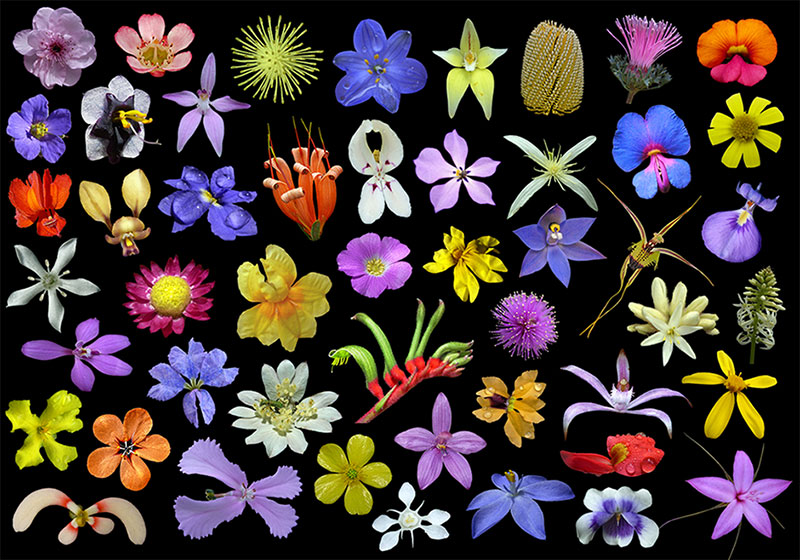 montage of Western Australian wildflowers